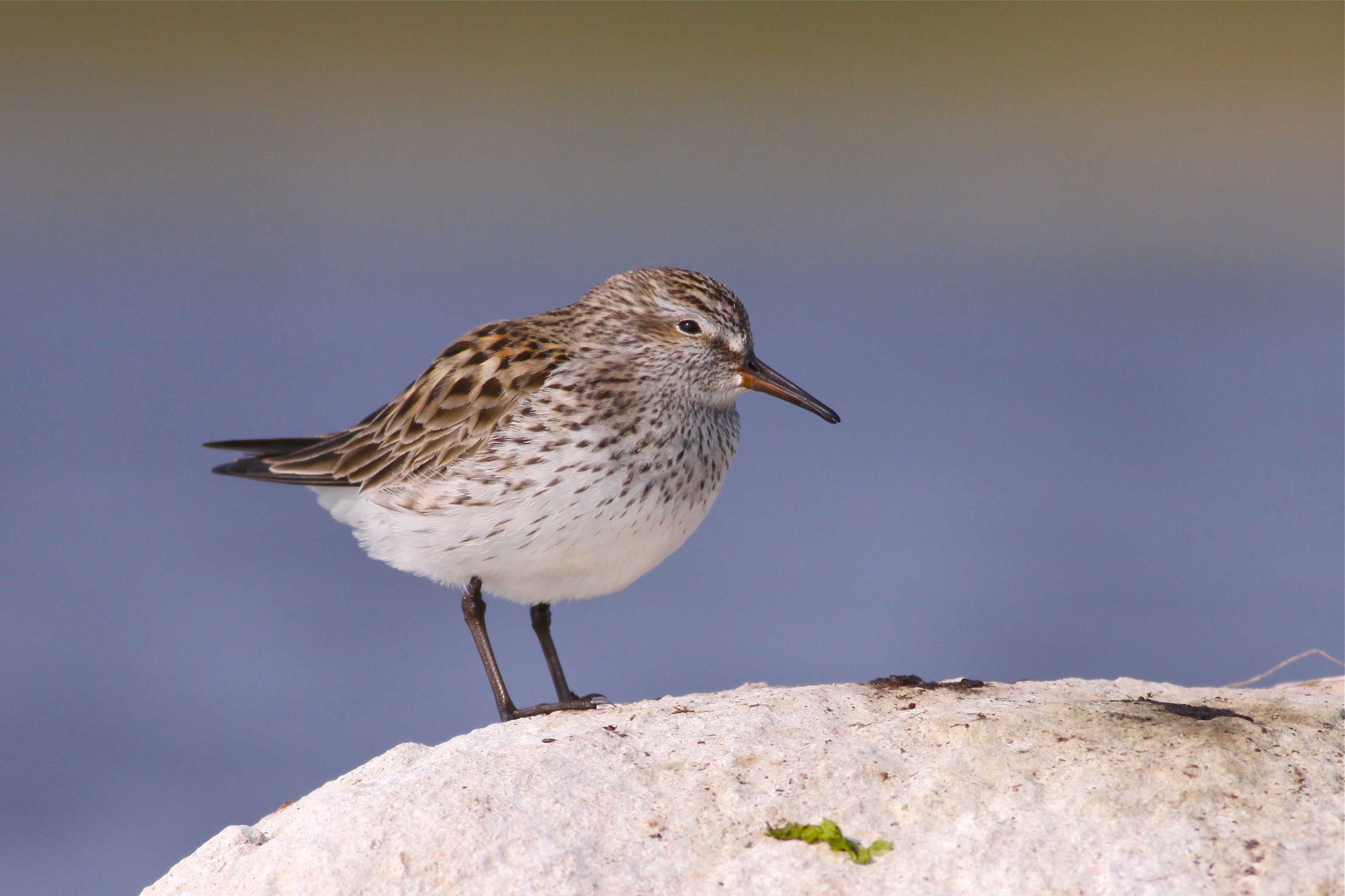 White-rumped Sandpiper - Sandy Lake, Two Hills County